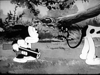 Screenshot from The Quail Hunt, a 1935 Walter Lantz cartoon. For details, check the sources below: The Walter Lantz Cartune Encyclopedia: 1935 The Walter Lantz Cartune Encyclopedia: List of Shorts in the Public Domain